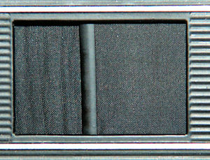 Shutter